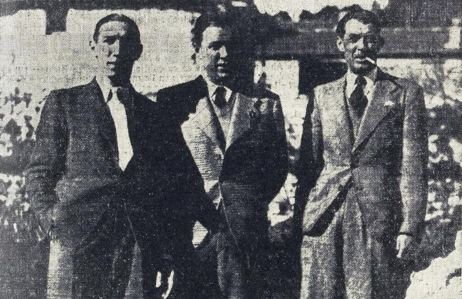 Three of the drivers that shared first place in the Rallye Monte Carlo 1939, from left: Marcel Contet, Jean Trévoux and Joseph Paul